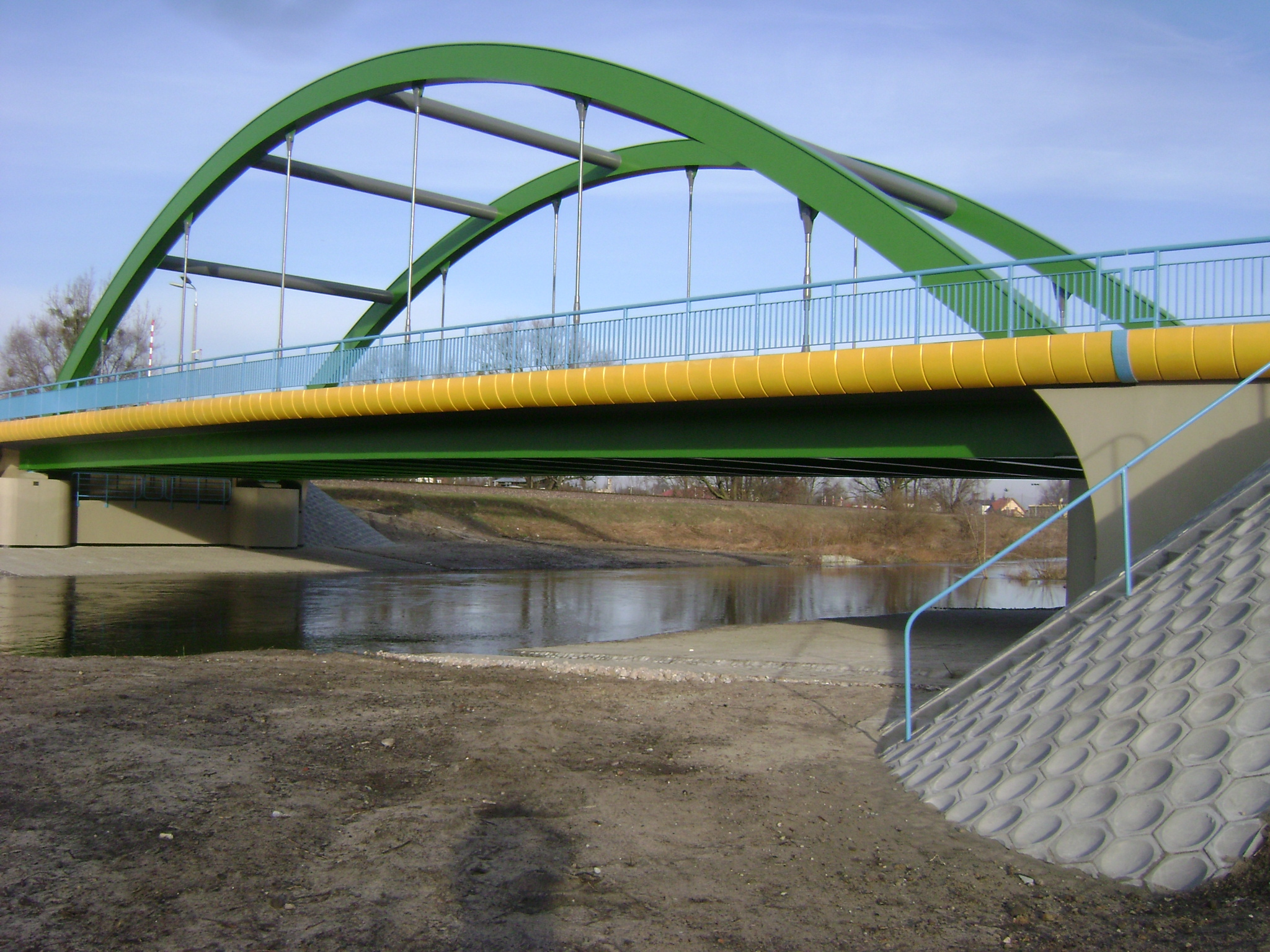 Poland. Konstancin-Jeziorna. Jeziorka River.